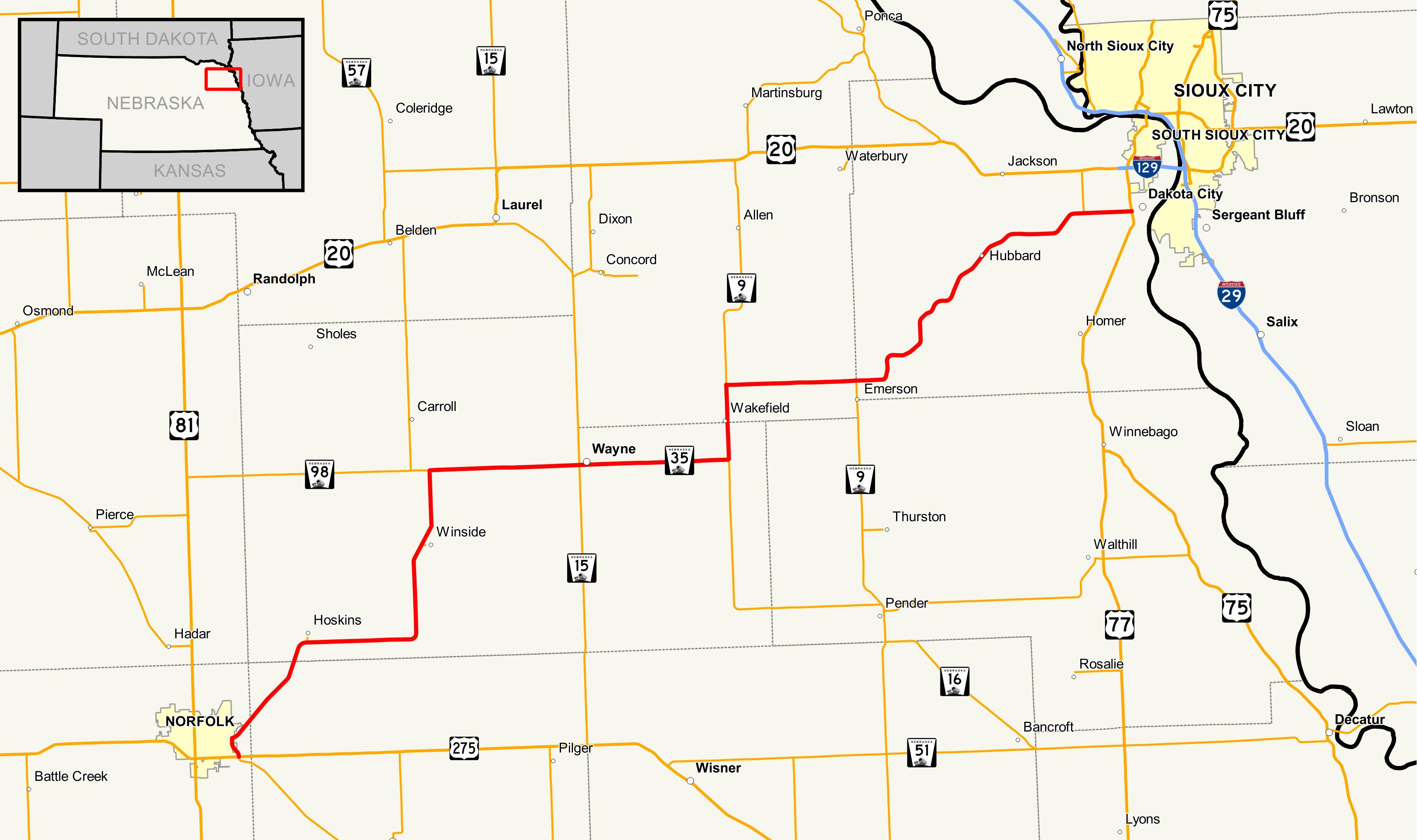 Map of Nebraska Highway 35 Data Sources: Nebraska Highways - - Dec 2016 Nebraska County Boundaries - - Dec 2016 Nebraska City Boundaries - - Dec 2016 This PNG graphic was created with QGIS